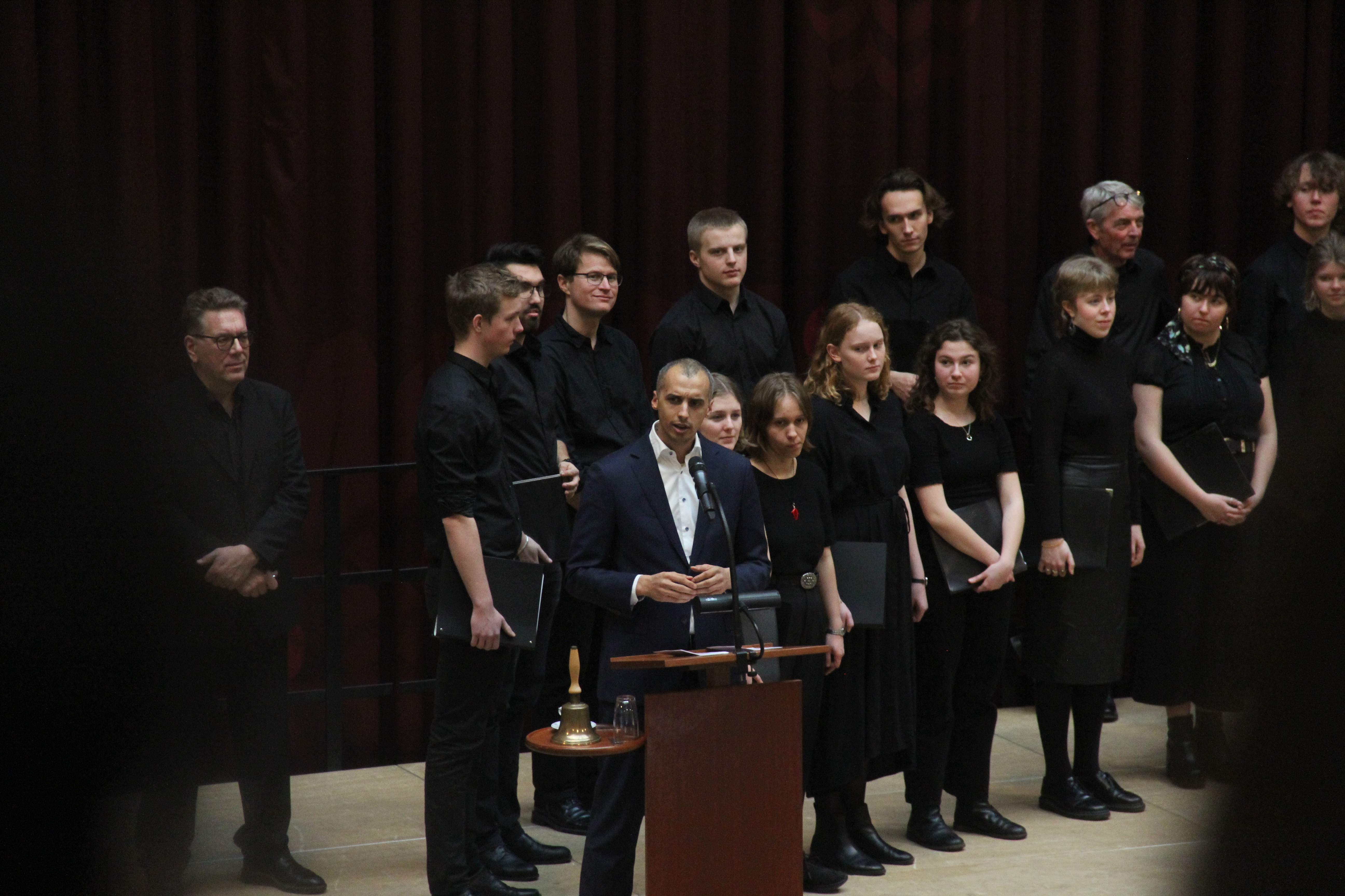 Matias Tesfaye, Danish minister, Social Democrats